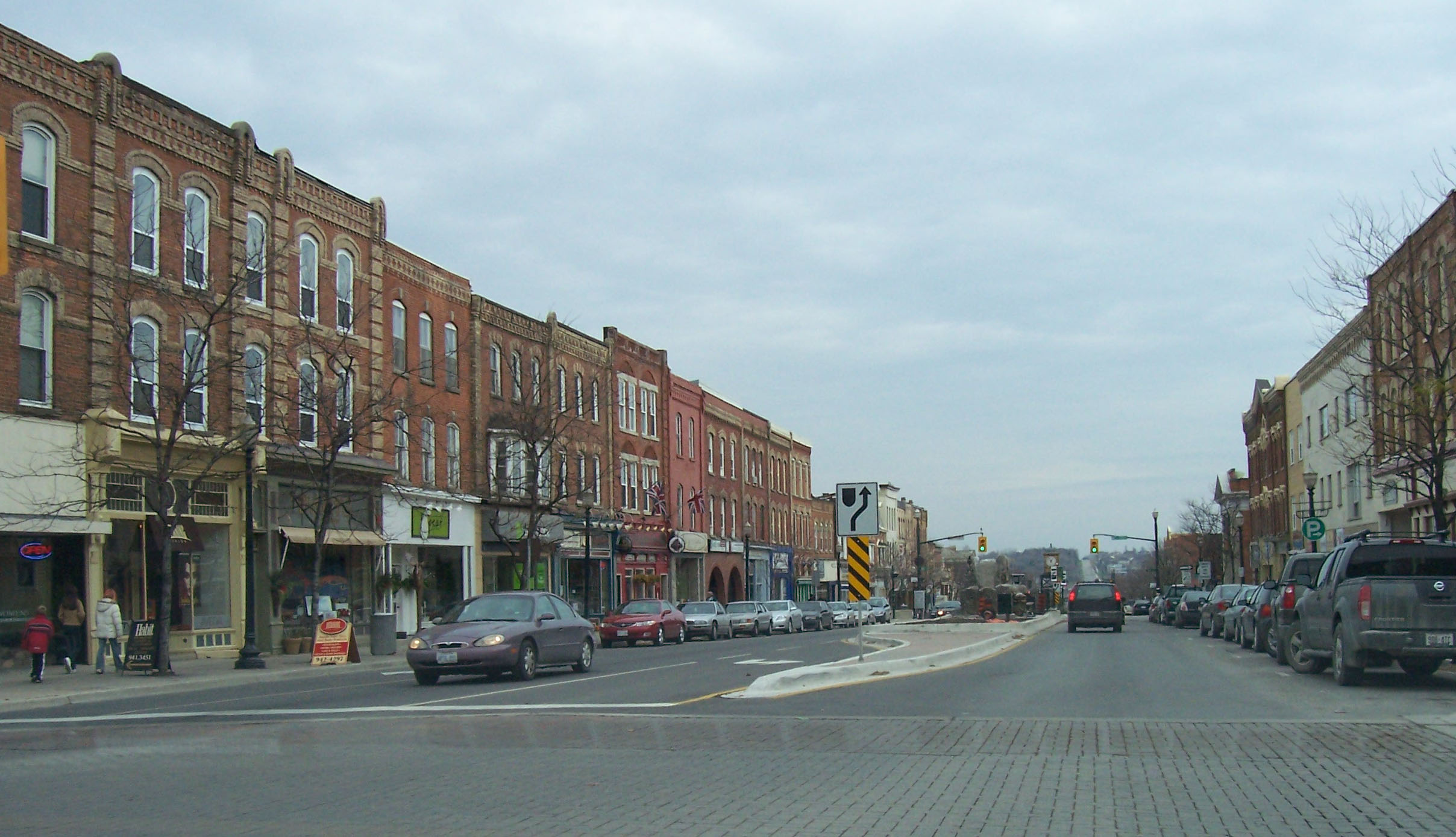 Broadway Avenue through downtown Orangeville, Ontario.